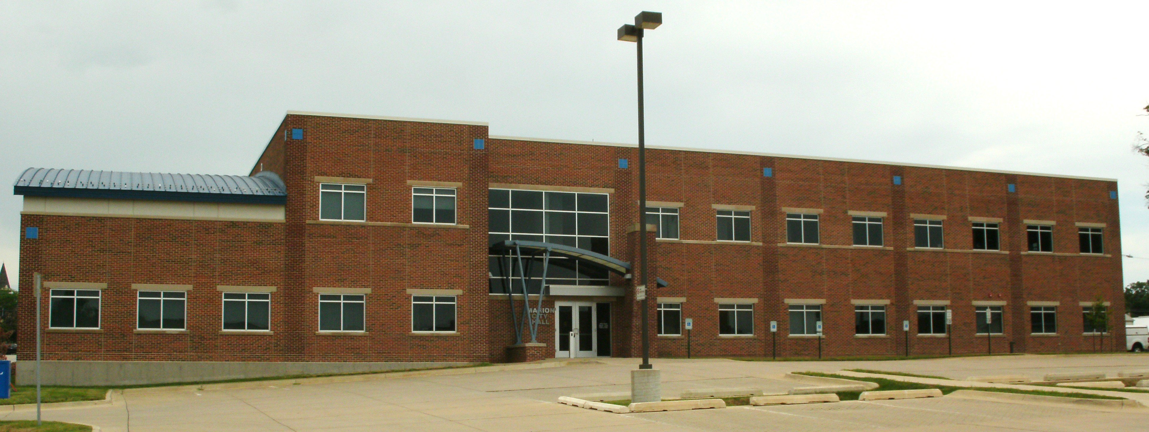 Marion's city hall located at 1225 6th avenue, Marion, Iowa